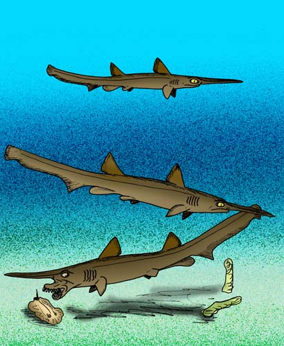 My reconstruction of the Cretaceous lamnid shark, Scapanorhynchus raphiodon (c) Stanton F. Fink